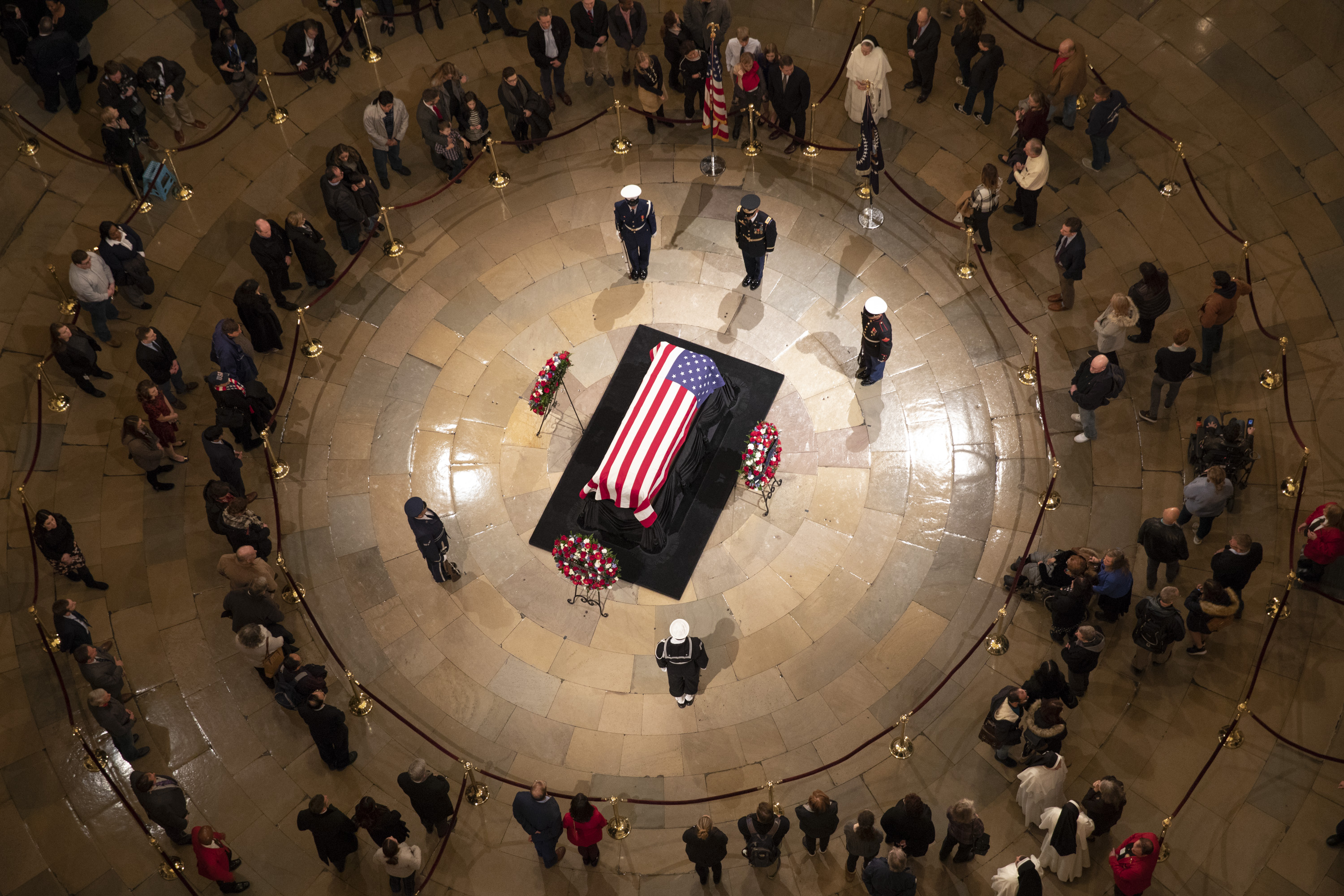 Members of the public pay their respects Monday evening, Dec. 3, 2018, at the casket of former President George H. W. Bush lying in state in the Rotunda of the U.S. Capitol in Washington, D.C. (Official White House Photo by Joyce N. Boghosian)